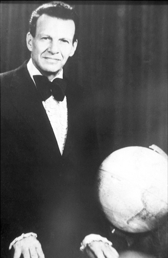 Samael Aun Weor and the earth, Symbol of the Avatar of Aquarius bringing Gnosis to humanity